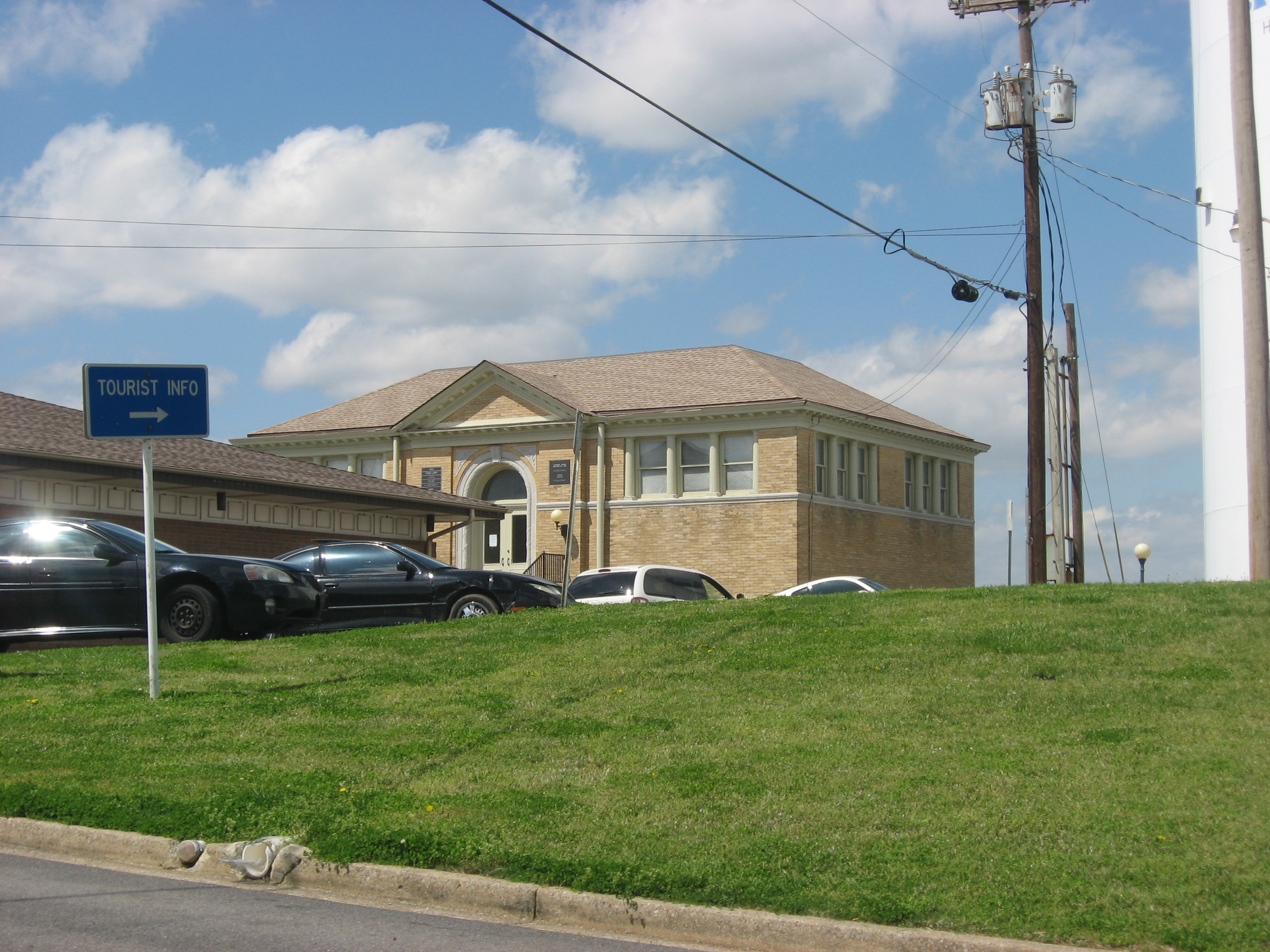 Front and eastern side of the Hickman Carnegie Library, located on the northern side of Moscow Avenue (Kentucky Route 94) east of Magnolia Street in Hickman, Kentucky, United States. Built in 1908, it is listed on the National Register of Historic Places.